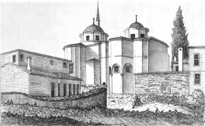 Byzantinai meletai topographikai (1877) Author: Paspatēs, Alexandros Geōrgiou, 1814-1891. [from old catalog] Subject: Inscriptions, Greek Year: 1877 Possible copyright status: NOT_IN_COPYRIGHT Language: English Digitizing sponsor: Google Book contributor: Oxford University Collection: europeanlibraries